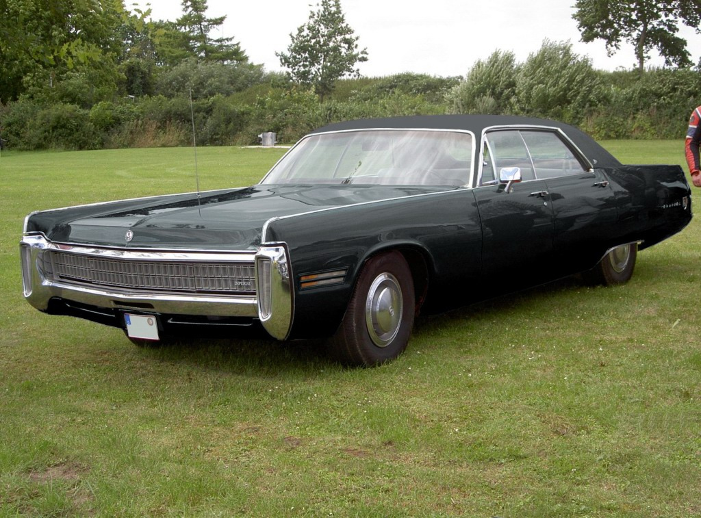 1972 Chrysler Imperial